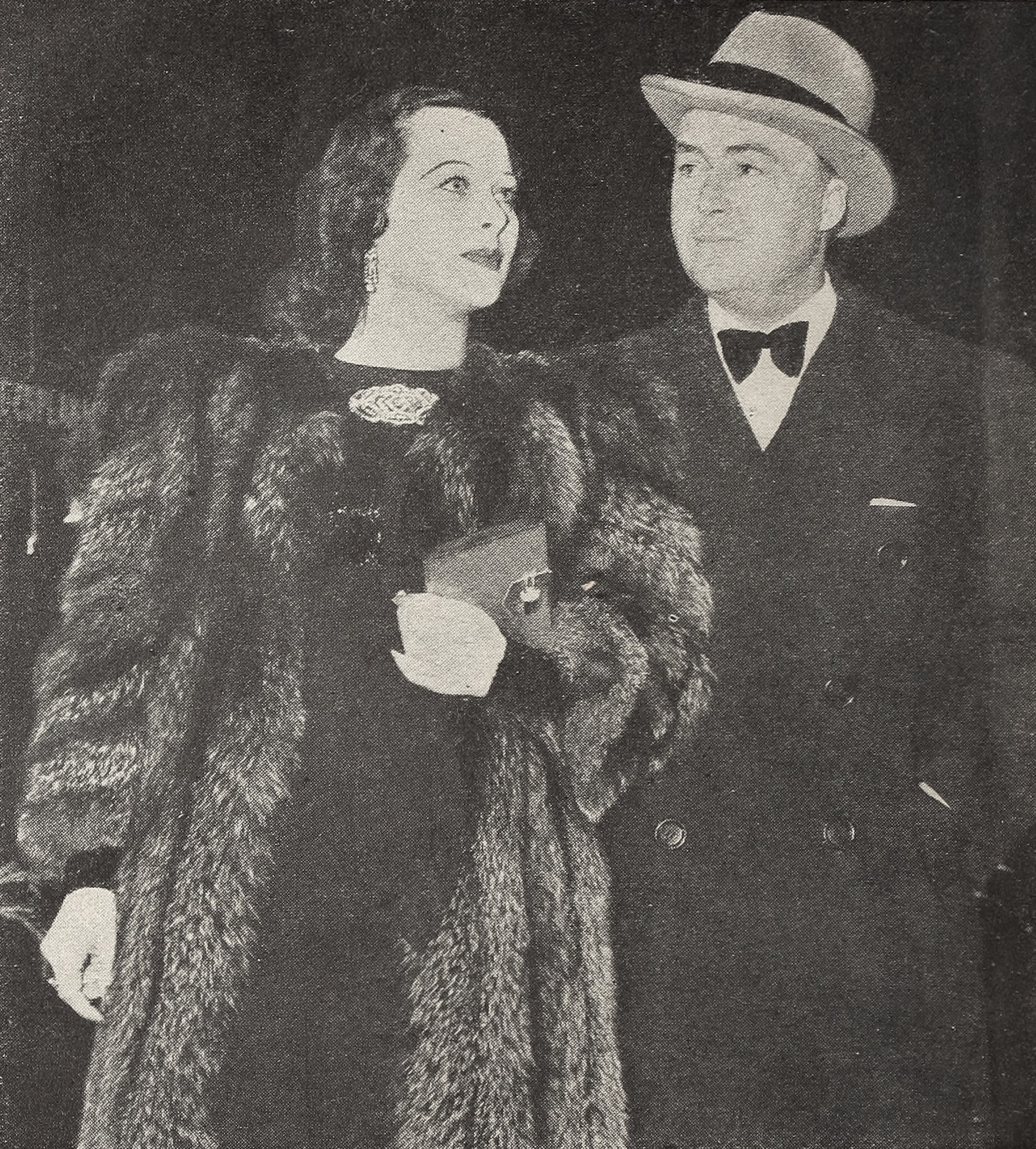 Hedy Lamarr and her new husband Gene Markey, March 1939